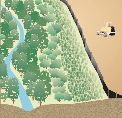 Illustration of a silt fence installation at a construction site. From U.S. EPA publication, "Developing Your Stormwater Pollution Prevention Plan: A Guide for Construction Sites." Document No. EPA-833-R-060-04.